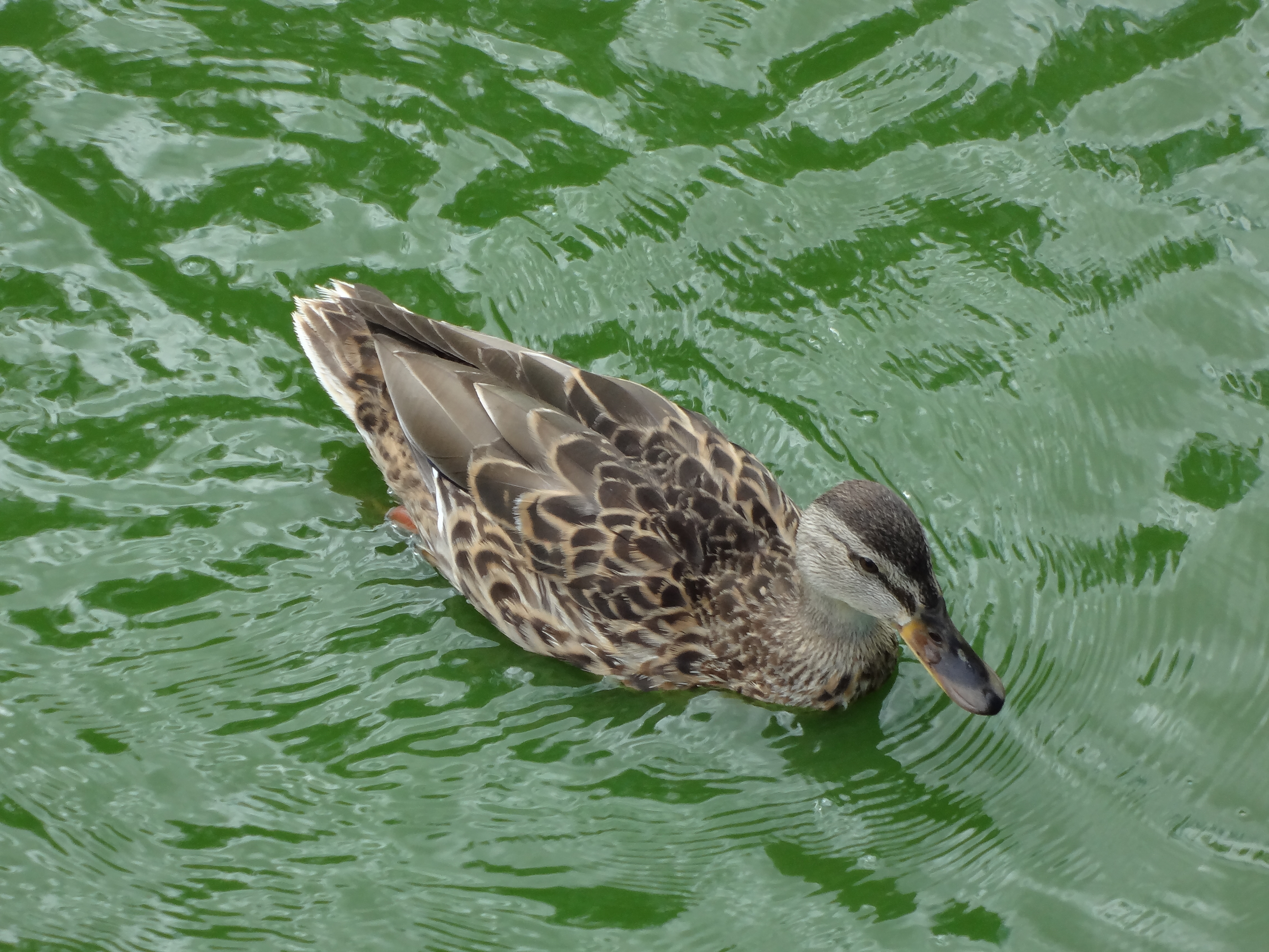 Faunia in Madrid, Spain